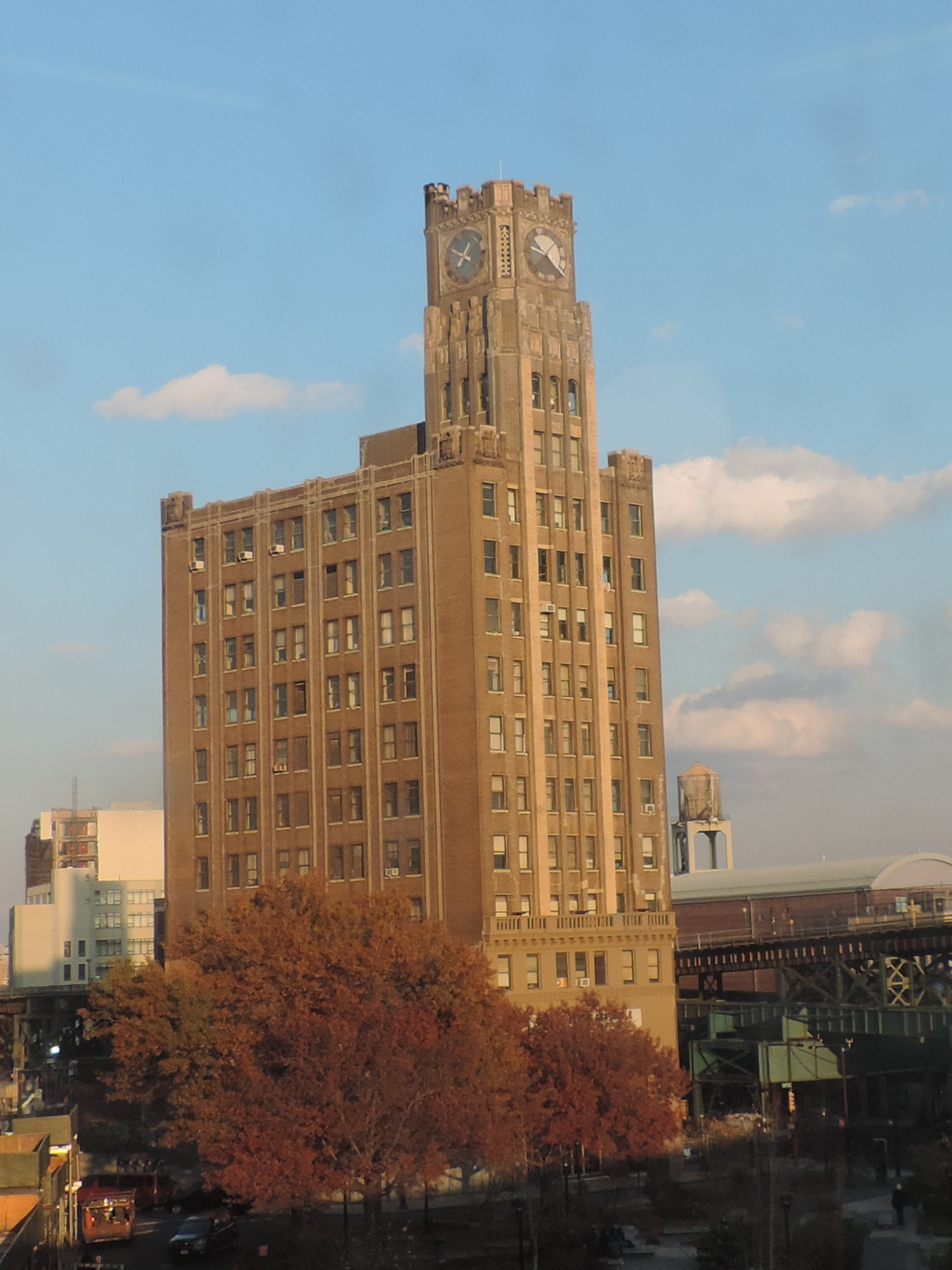 Looking east from westbound BMT train, at former Bank of Manhattan building (NY Times article) at northeast corner of Queens Plaza, on a mostly sunny late afternoon.